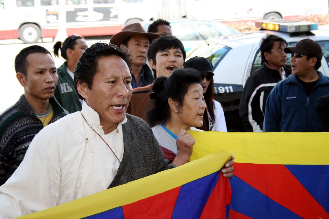 protest at the SF Chinese consulate